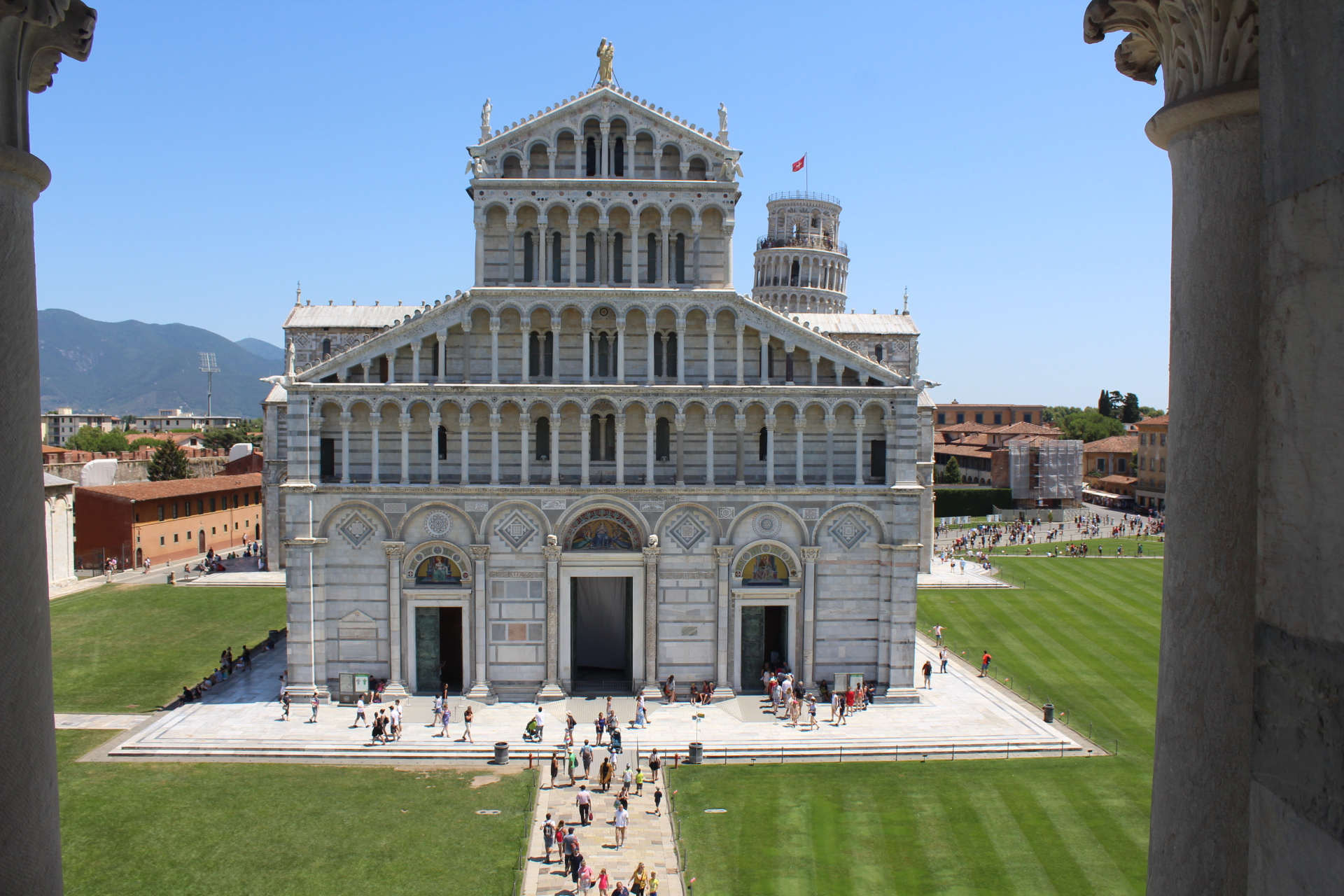 Dom und schiefer Turm von Pisa